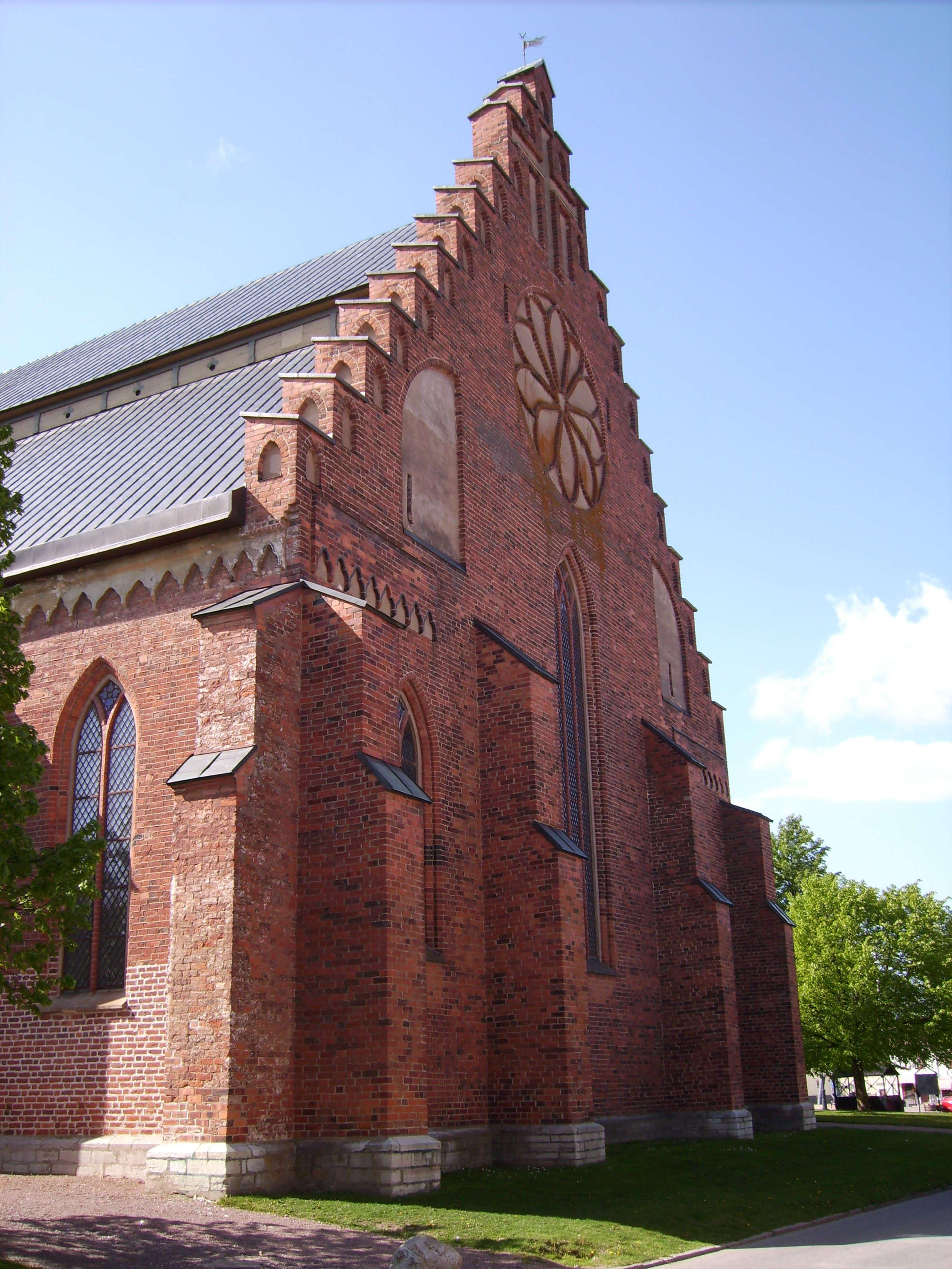 The Middle Age church ”Vårfrukyrkan” in Skänninge, built around 1300 by the German population in the town, the Swedish population had a different church, but after the Reformation this is the only church left in the town, churches and monasteries destroyed by the Swedish king Gustaf Vasa around 1550, when he need stones to his new castle in Vadstena.